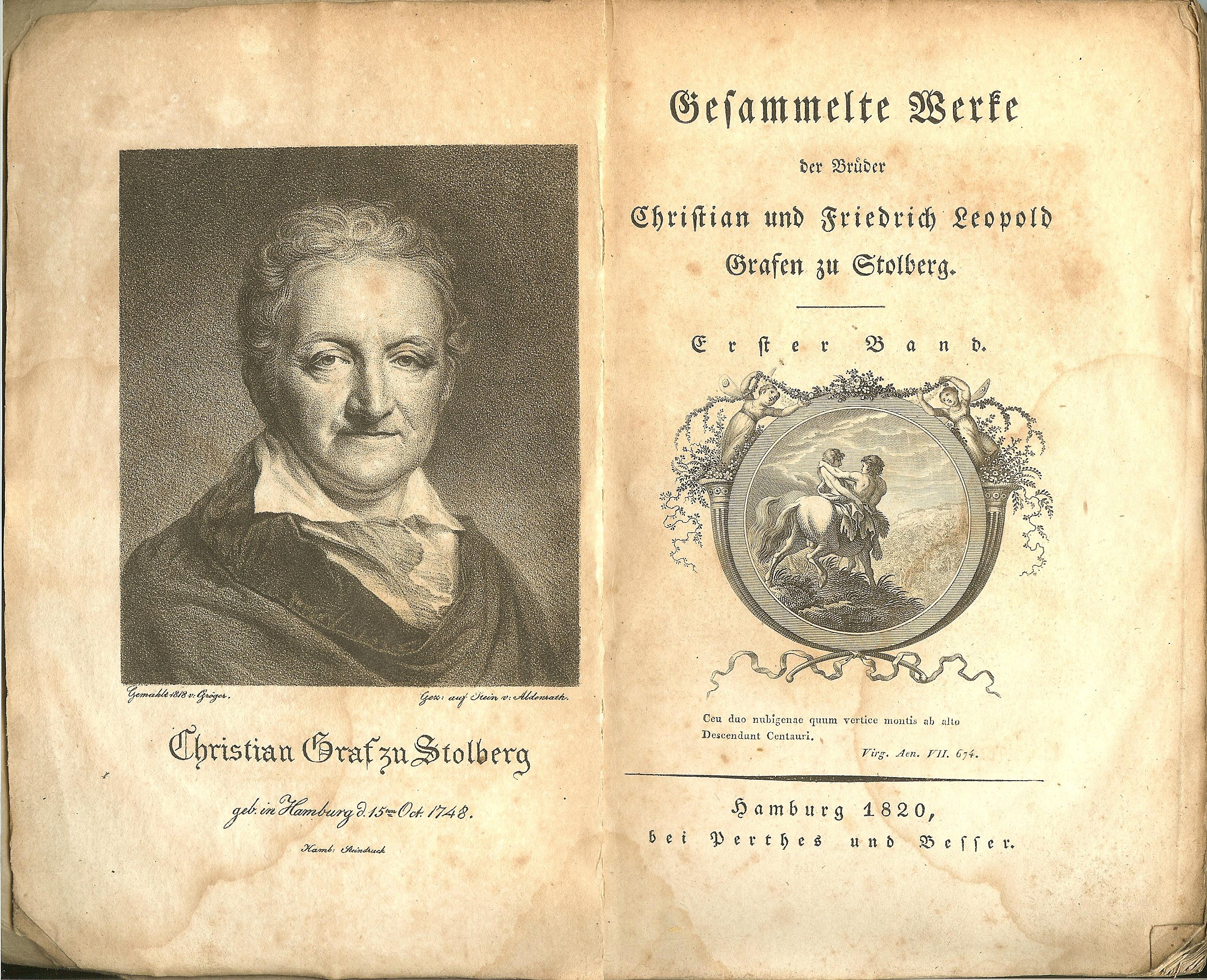 Frontispiece and tile page of Gesammelte Werke der Brüder Christian und Friedrich Leopold Grafen zu Stolberg Hamburg: Perthes und Besser 1820